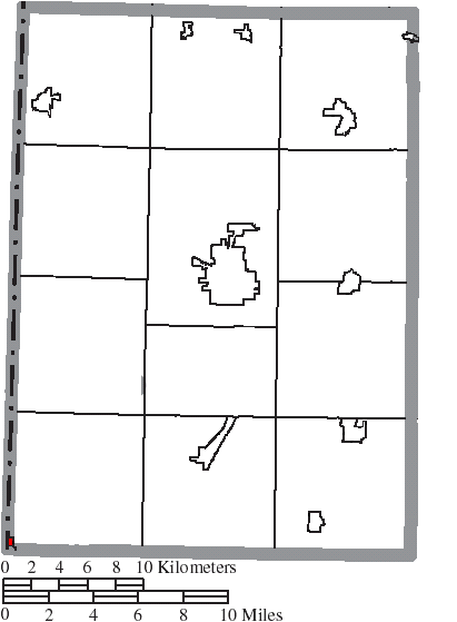 Map of the municipal and township boundaries of Preble County, Ohio, United States, as of the 2000 census, with the location of the village of College Corner highlighted. Township borders are shown only in unincorporated areas in order to differentiate incorporated and unincorporated areas more clearly.